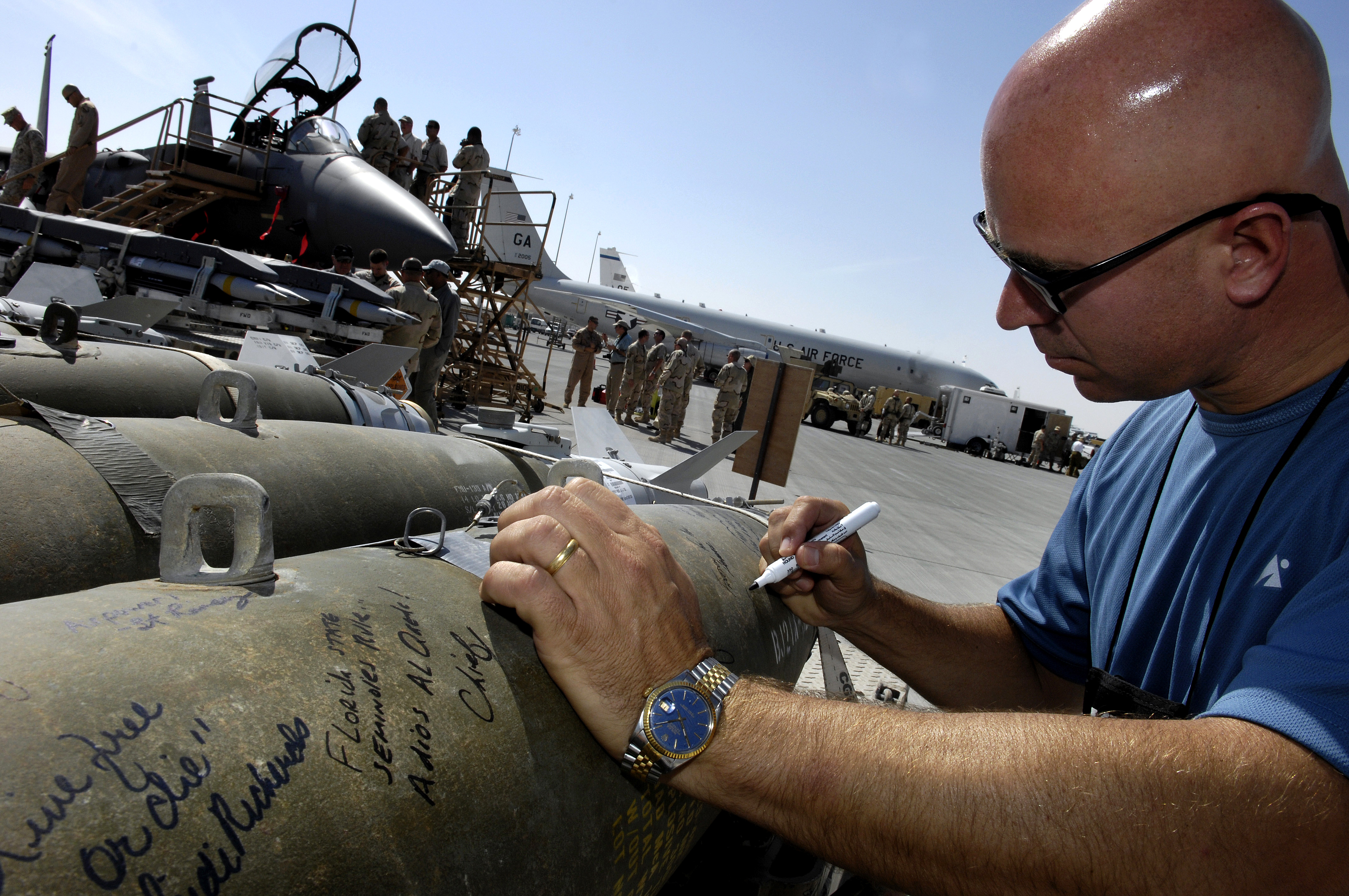 Michael Smerconish, American radio talk show host with Infinity Broadcasting WPHT Philadelphia and a Joint Civilian Orientation Conference 72 participant, signs a 500-pound Joint Direct Attack Munition "smart bomb" during an aircraft and weapons display in Southwest Asia, Oct. 20, 2006. JCOC is a seven day conference in which civilian community leaders travel to overseas military bases to get a better understanding of United States Armed Forces and the overall mission of the Department of Defense. Defense Dept. photo by Cherie A. Thurlby.